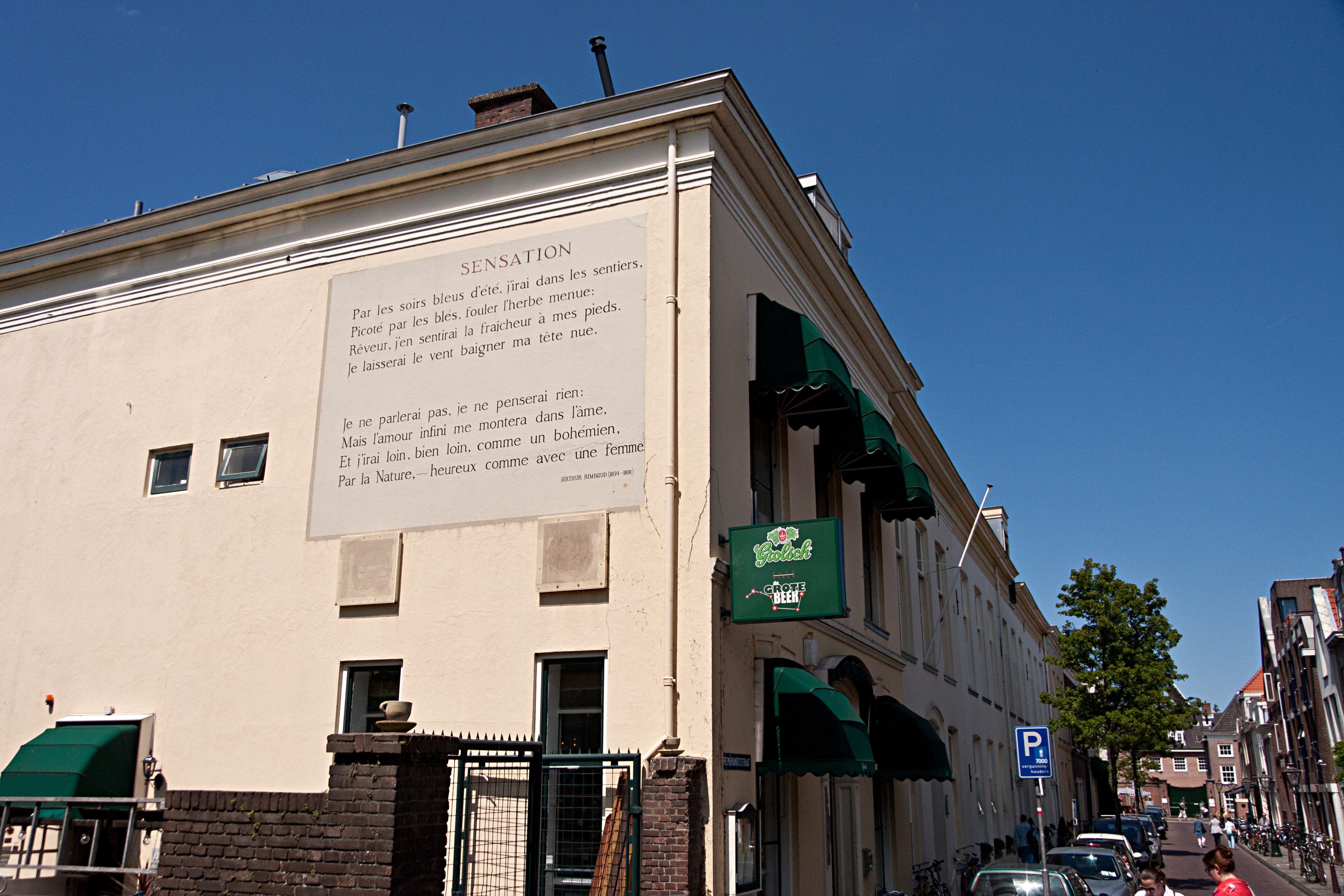 A wall poem in Leiden, the Netherlands, Sensation, in French, by Arthur Rimbaud